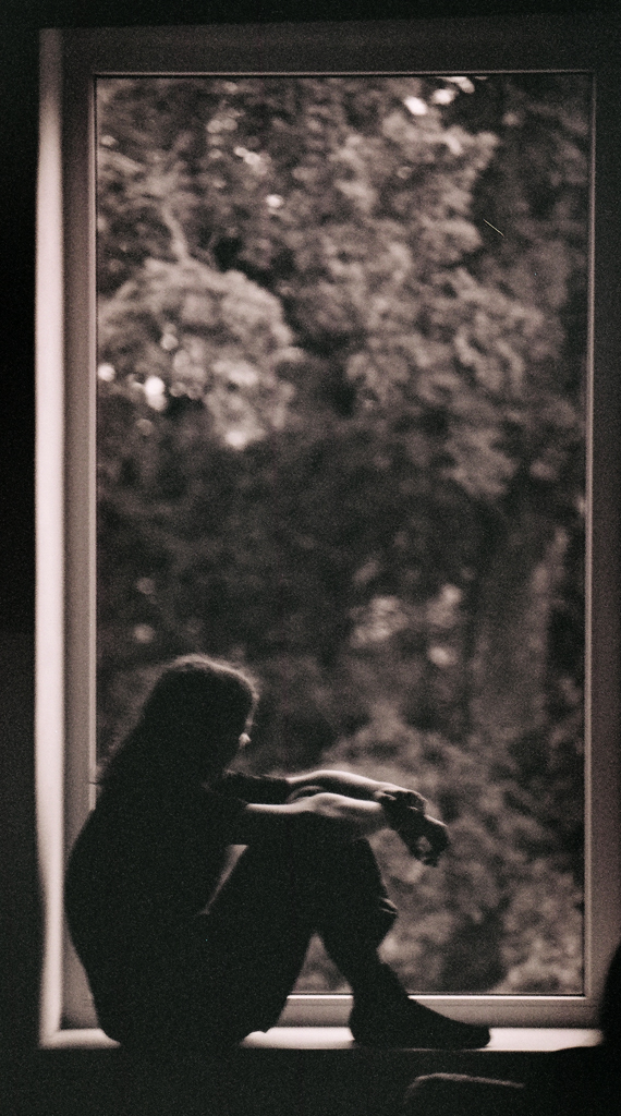 Found this digging through the archives. Blurred and grainy due to low light, but still very moody for me.